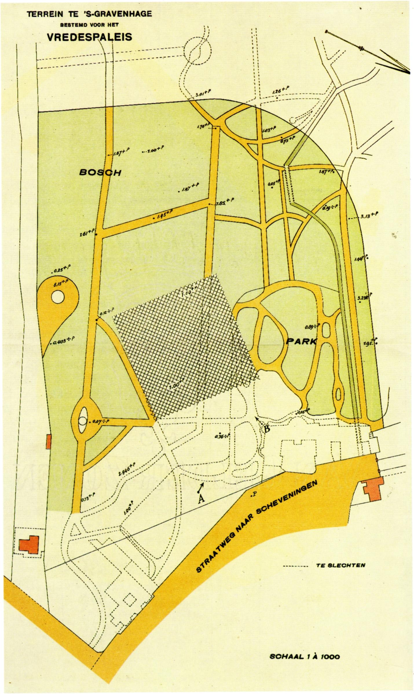 Situation of the Peaca Palace site for the 1905 international architectural competition.